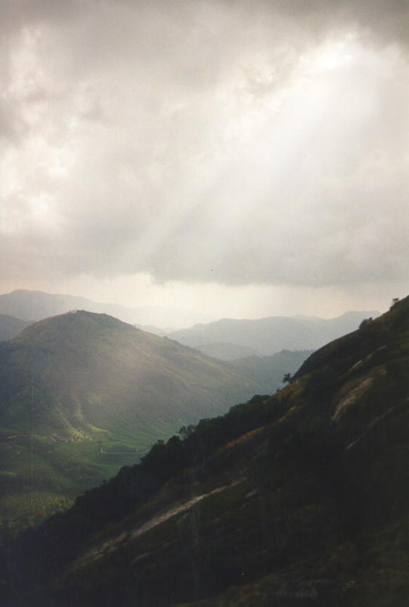 Landscape around Anamudi from Eravikulam National Park